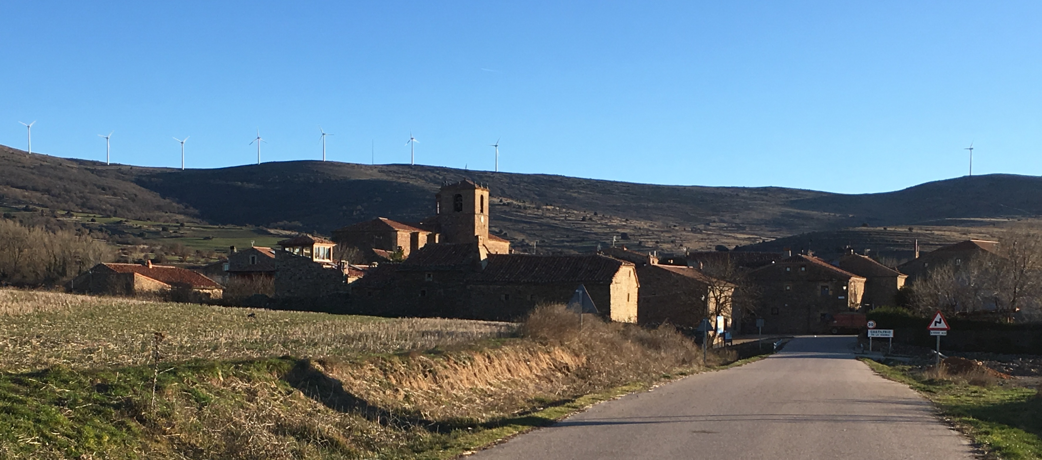 Castilfrío de la Sierra, Soria, Spain